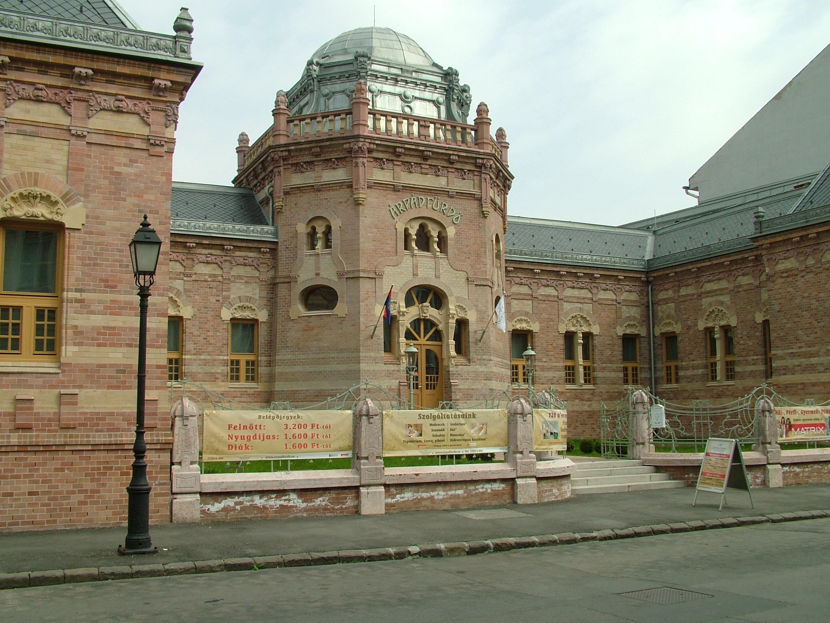 Székesfehérvár, bath Árpád. Renovated in 2010.